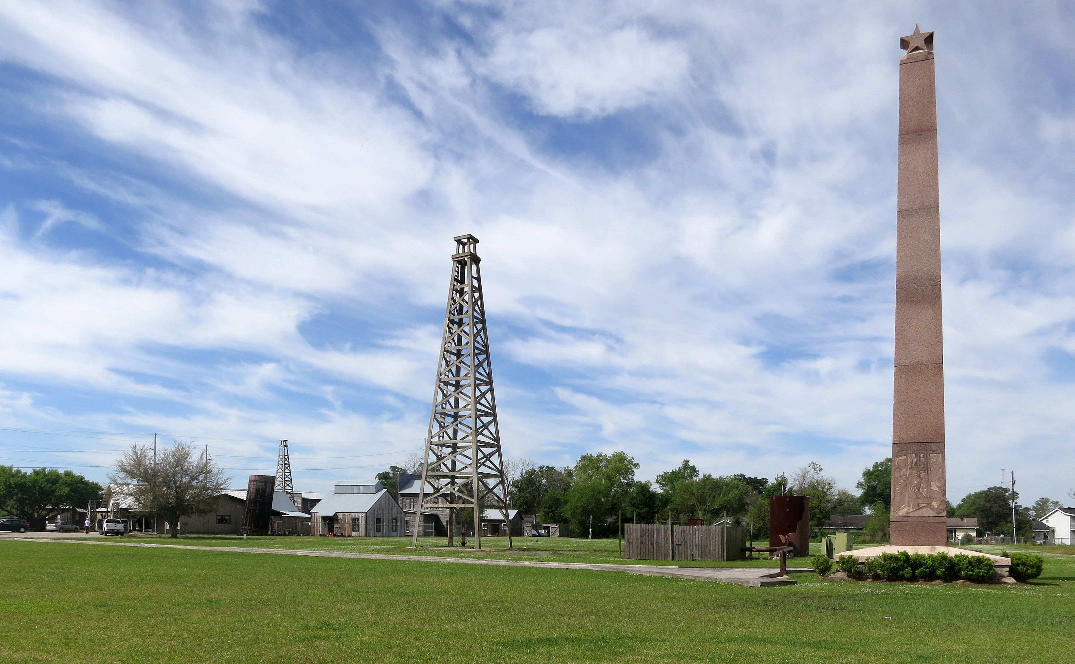 The Spindletop-Gladys City Boomtown Museum is located in Beaumont, Texas, to commemorate the Lucas Gusher at the Spindletop Hill salt dome in Beaumont on Jan. 10, 1901. The discovery sparked an oil boom in Texas that continues today. Along with a gift shop with commemorative gifts, the museum features historical, period reenactments by area performers. A replica of the wooden oil derricks that once dotted the landscape of Spindletop Hill in the early 1900s has been erected near the museum. For special occasions and anniversaries, the museum staff “blows the gusher” with a plume of water and provides a historical narrative and sound effects to simulate the discovery of oil at Spindletop.